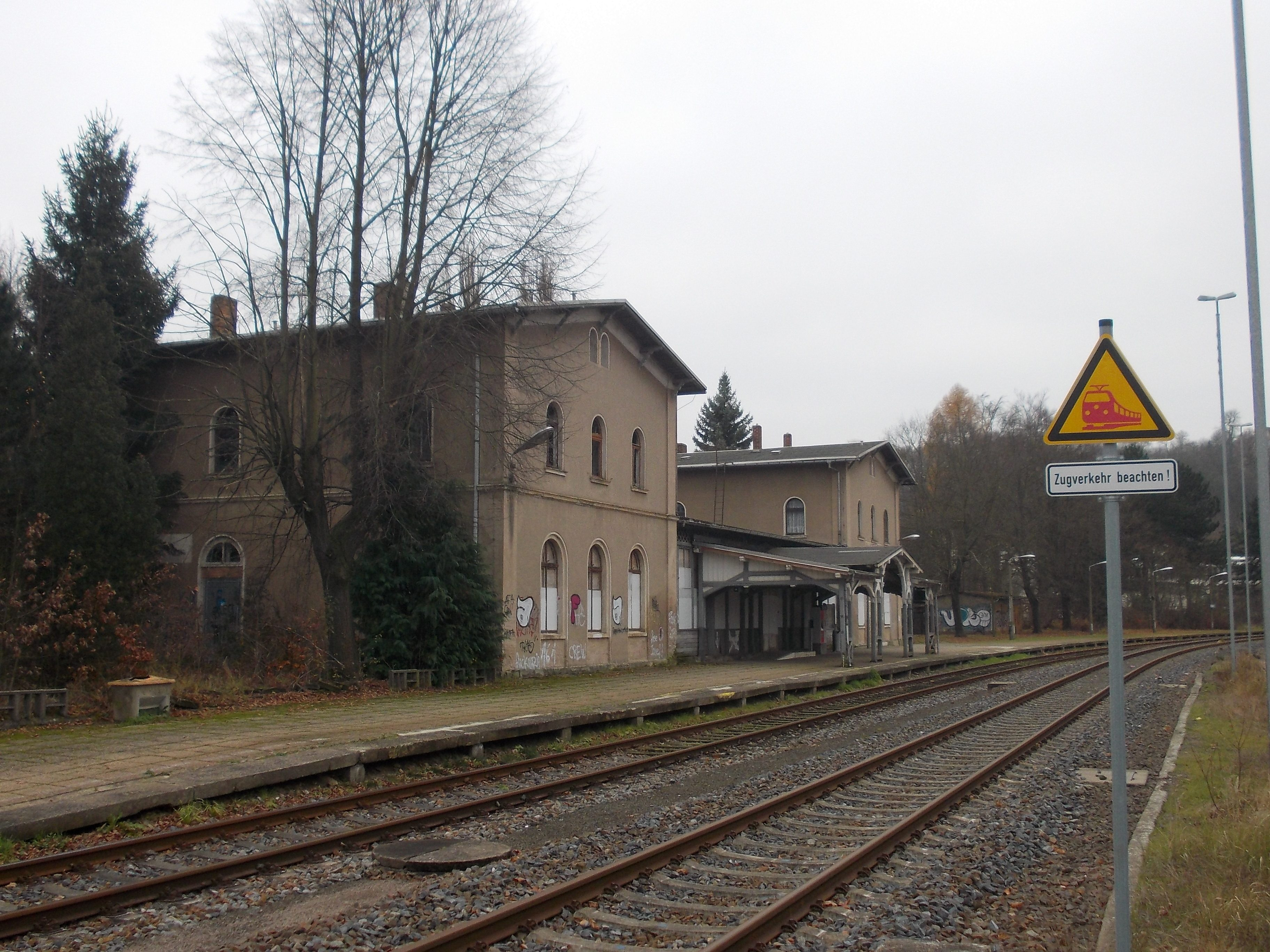 Rosswein train station (Mittelsachsen district, Saxony)